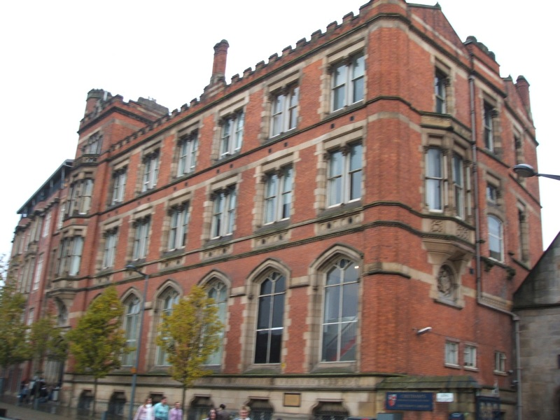 From the front